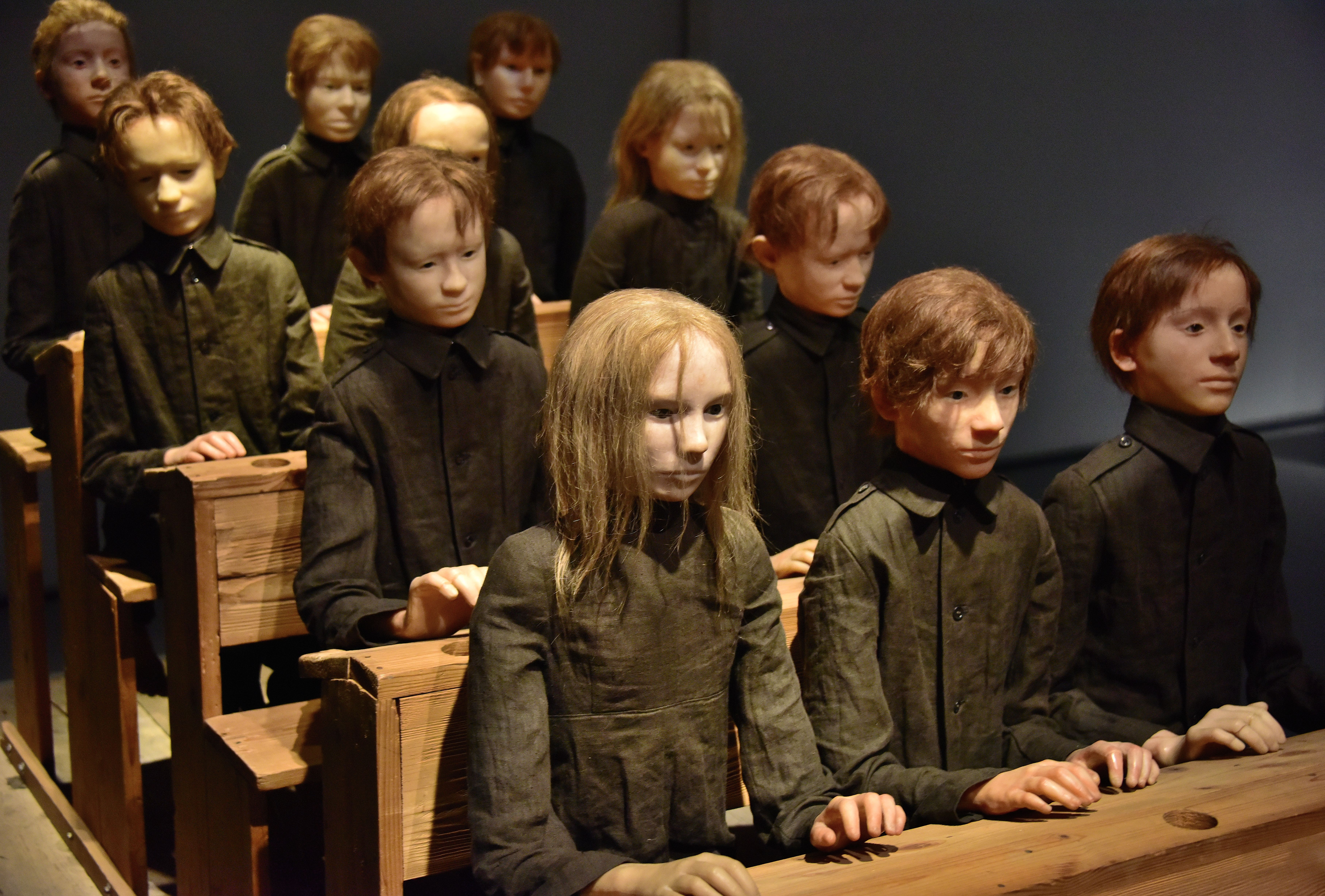 Cricoteka, the Centre for the Documentation of the Art of Tadeusz Kantor in Kraków. Children from The Dead Class at their desks